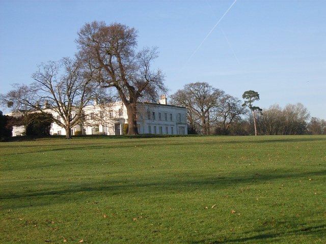 Foliejon Park. Viewed from Home Farm, which is derelict.